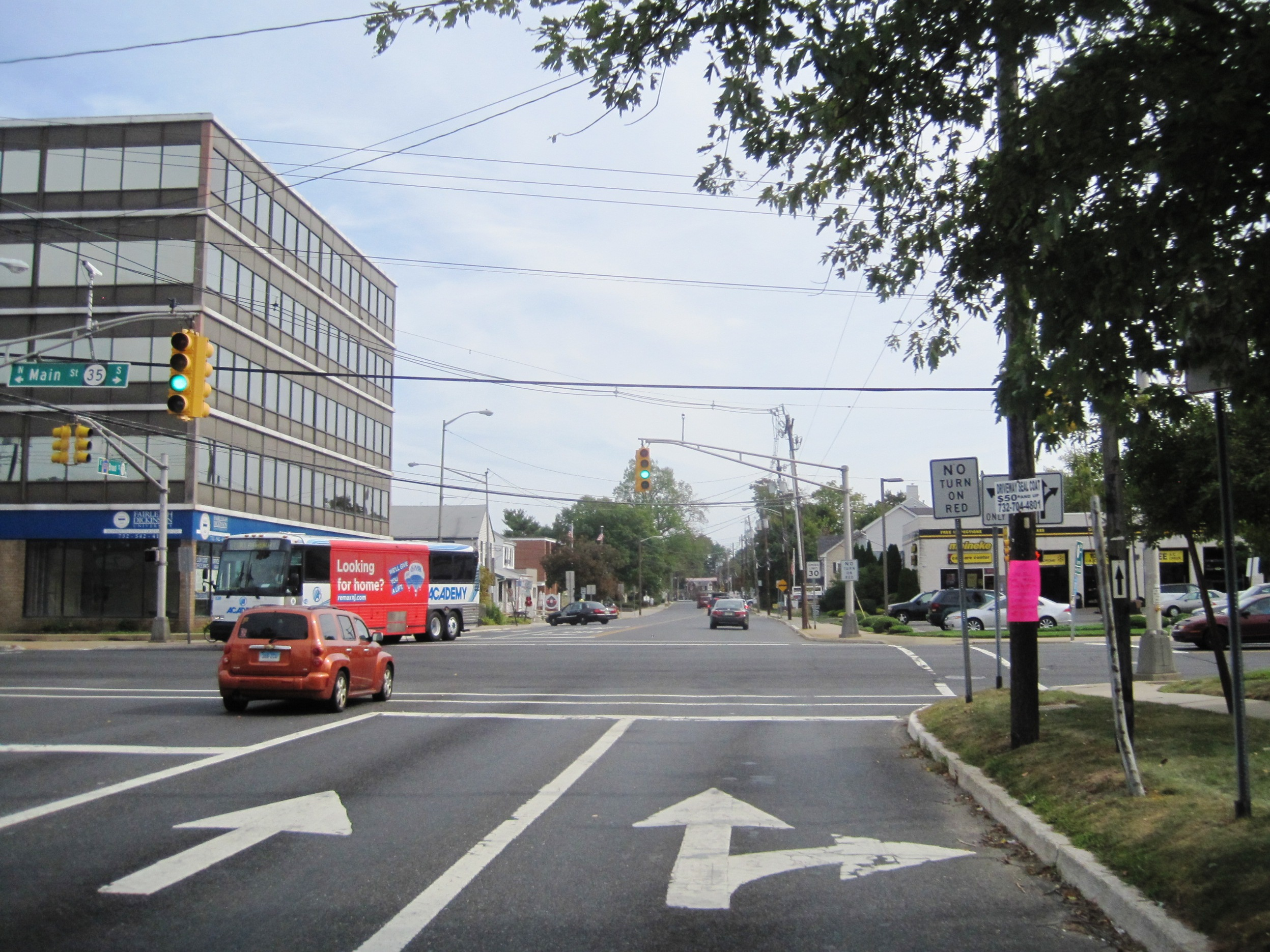 Photo of the center of Eatontown, New Jersey. It was taken along eastbound Broad Street (New Jersey Route 71/County Route 537 ahead of the intersection) at Main Street (Route 35).